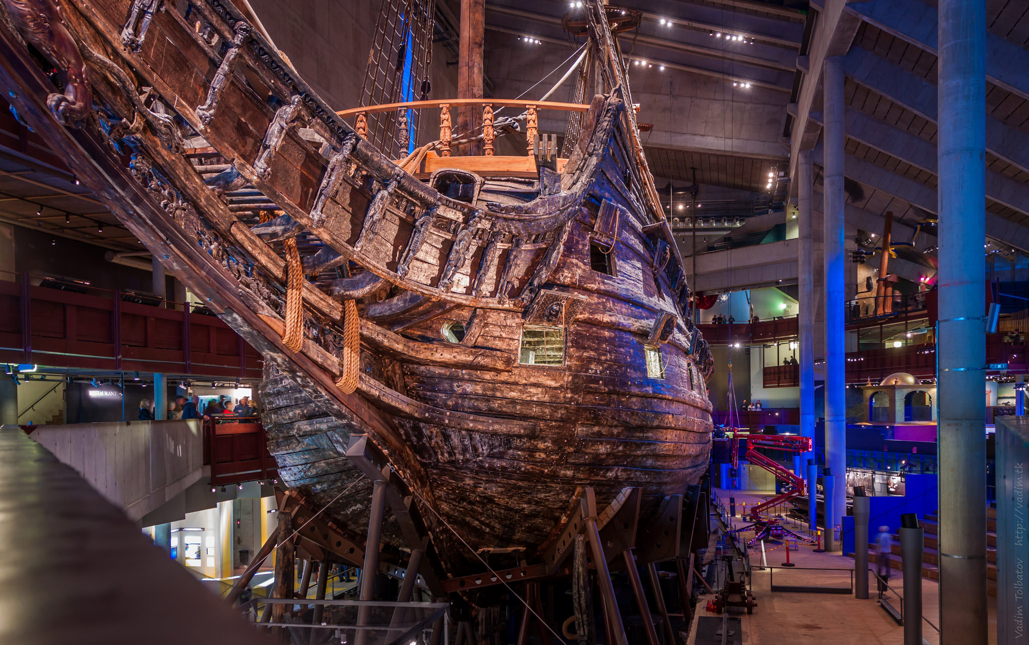 "Vasa" Warship museum, Stockholm, 2012